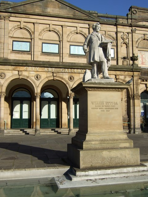 York Art Gallery and statue of William Etty, York, North Yorkshire, England